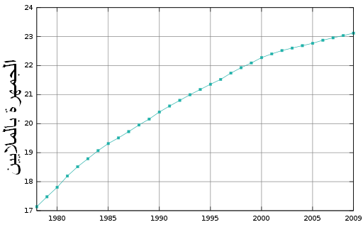 Taiwan's population since 1978.